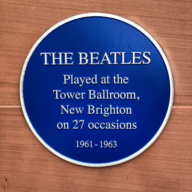 The Beatles plays at the Tower Ballroom, New Brighton on 27 occasions. 1961 - 1963